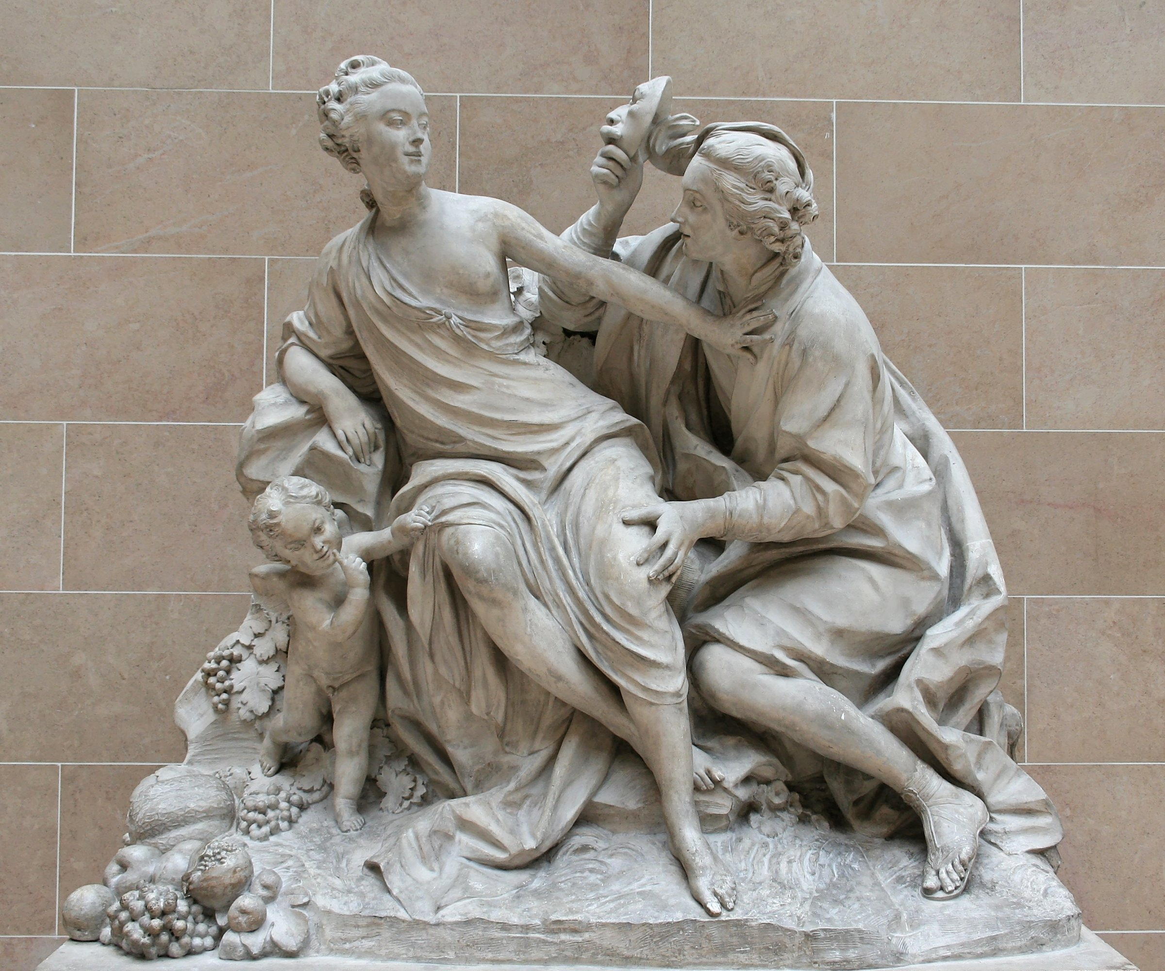 Created as a tribute to Louis XV and Madame de Pompadour, who had played the role in Versailles.